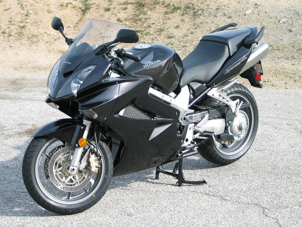 North American version of Honda's V-4 sport-touring bike, in "Pearl Black" (2006 model year)